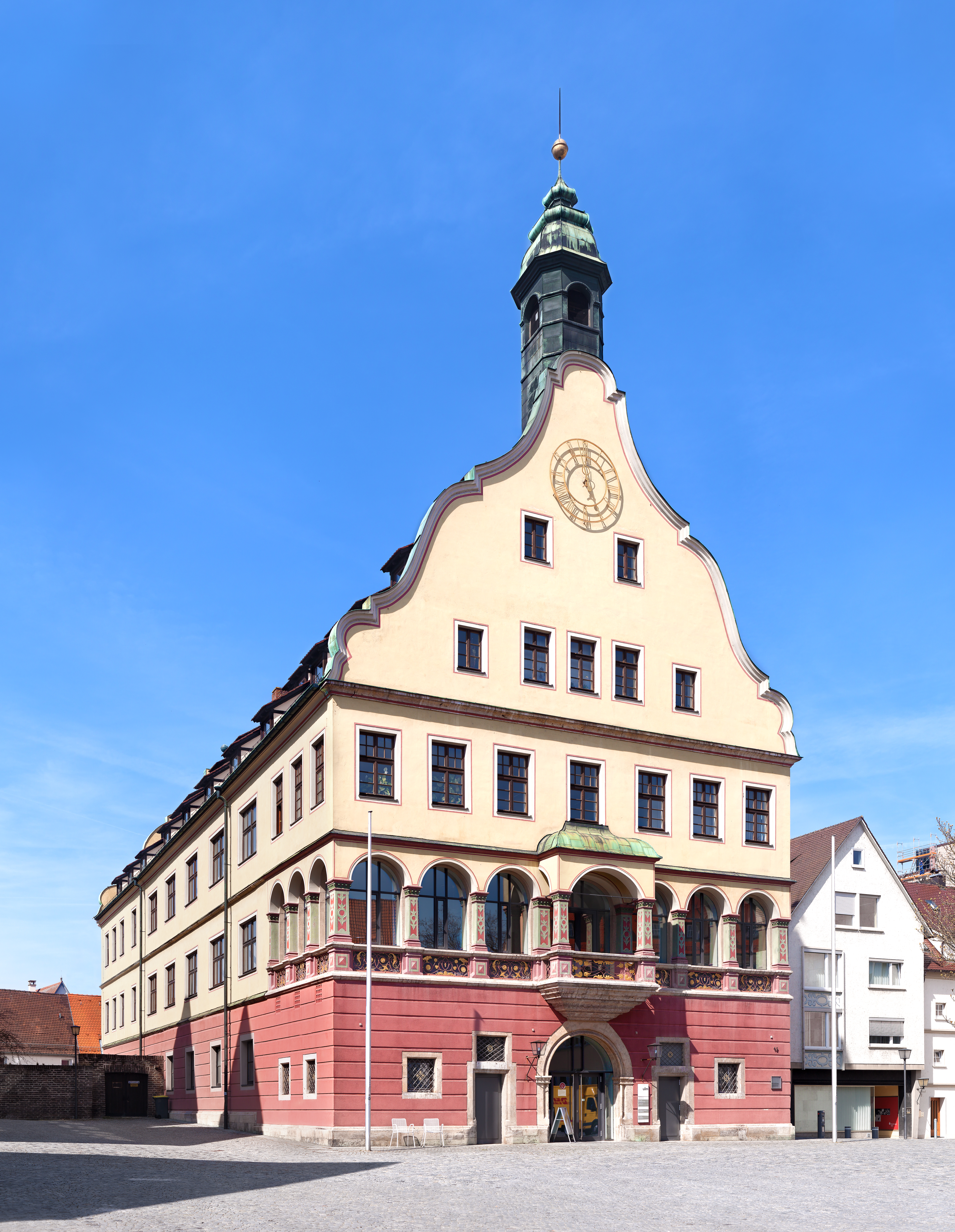 Schwörhaus in Ulm from southeast